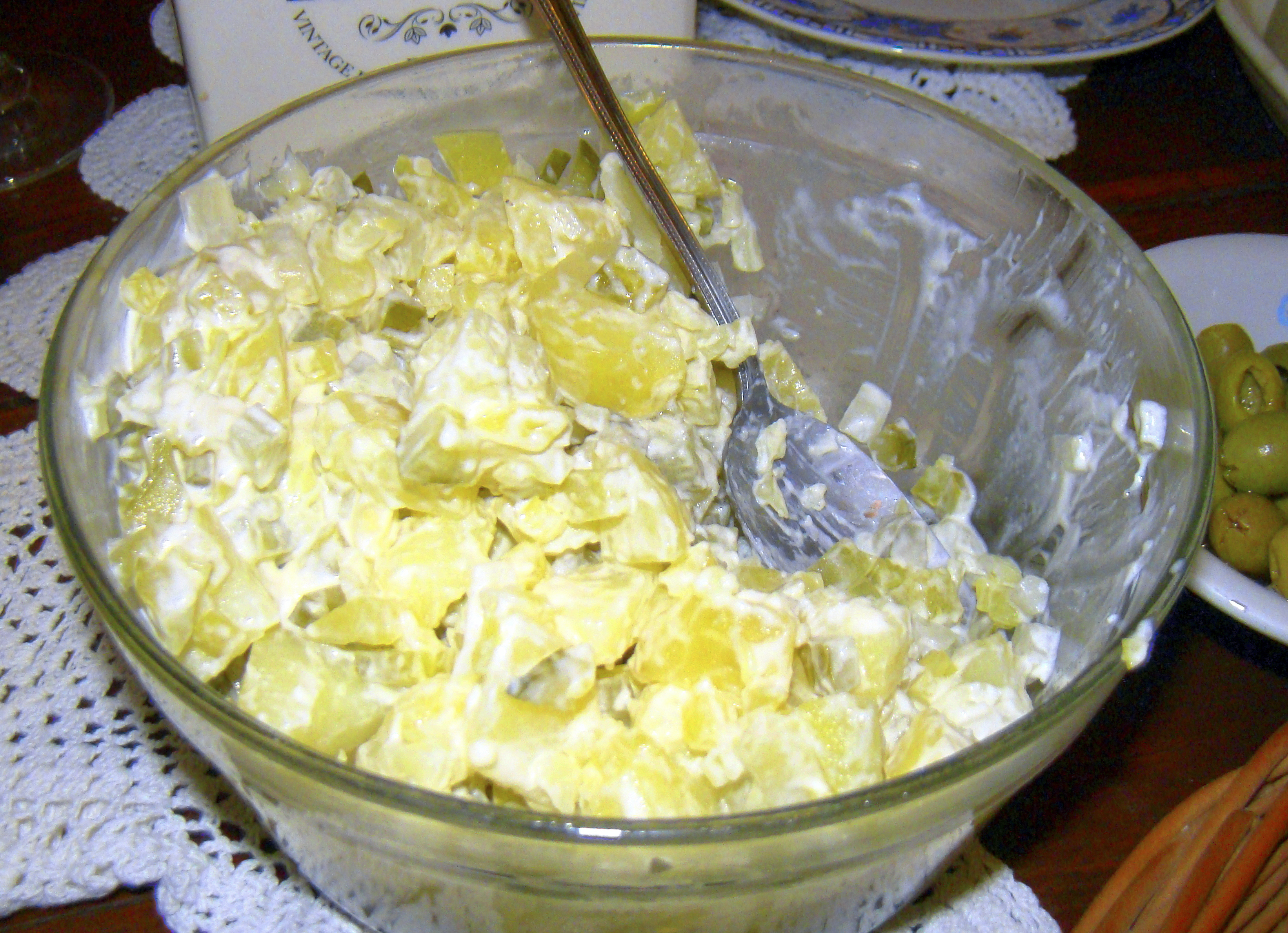 Potato salad